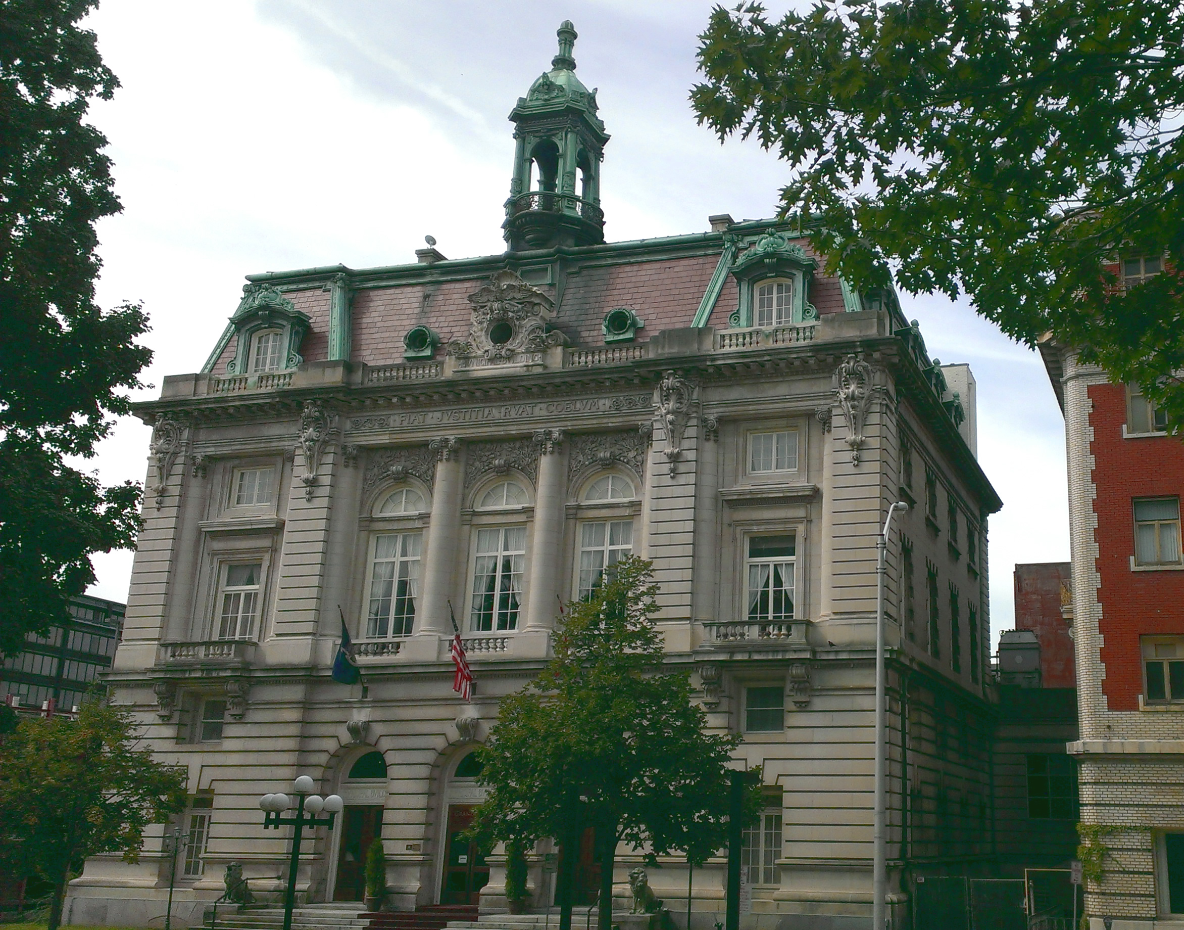 The former Binghamton City Hall, now the Grand Royale Hotel, in Binghamton, New York.